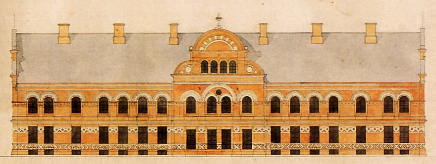 The 1880 extension of Blindeinstituttet in Copenhagen, Denmark